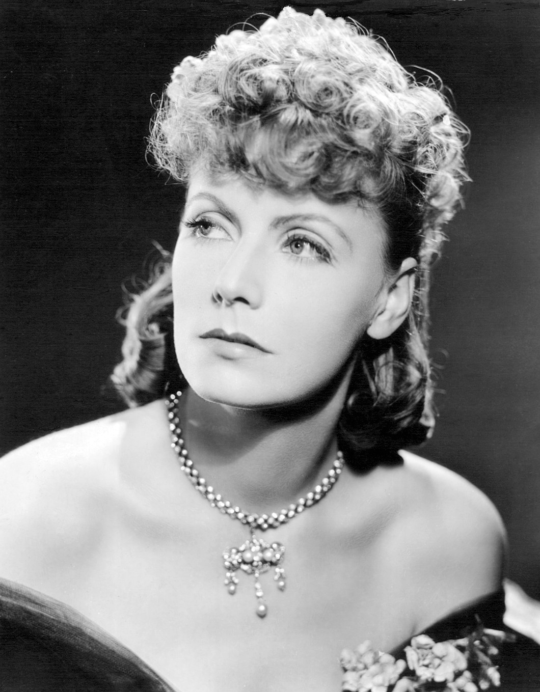 Photo of Greta Garbo from the 1935 film Anna Karenina.